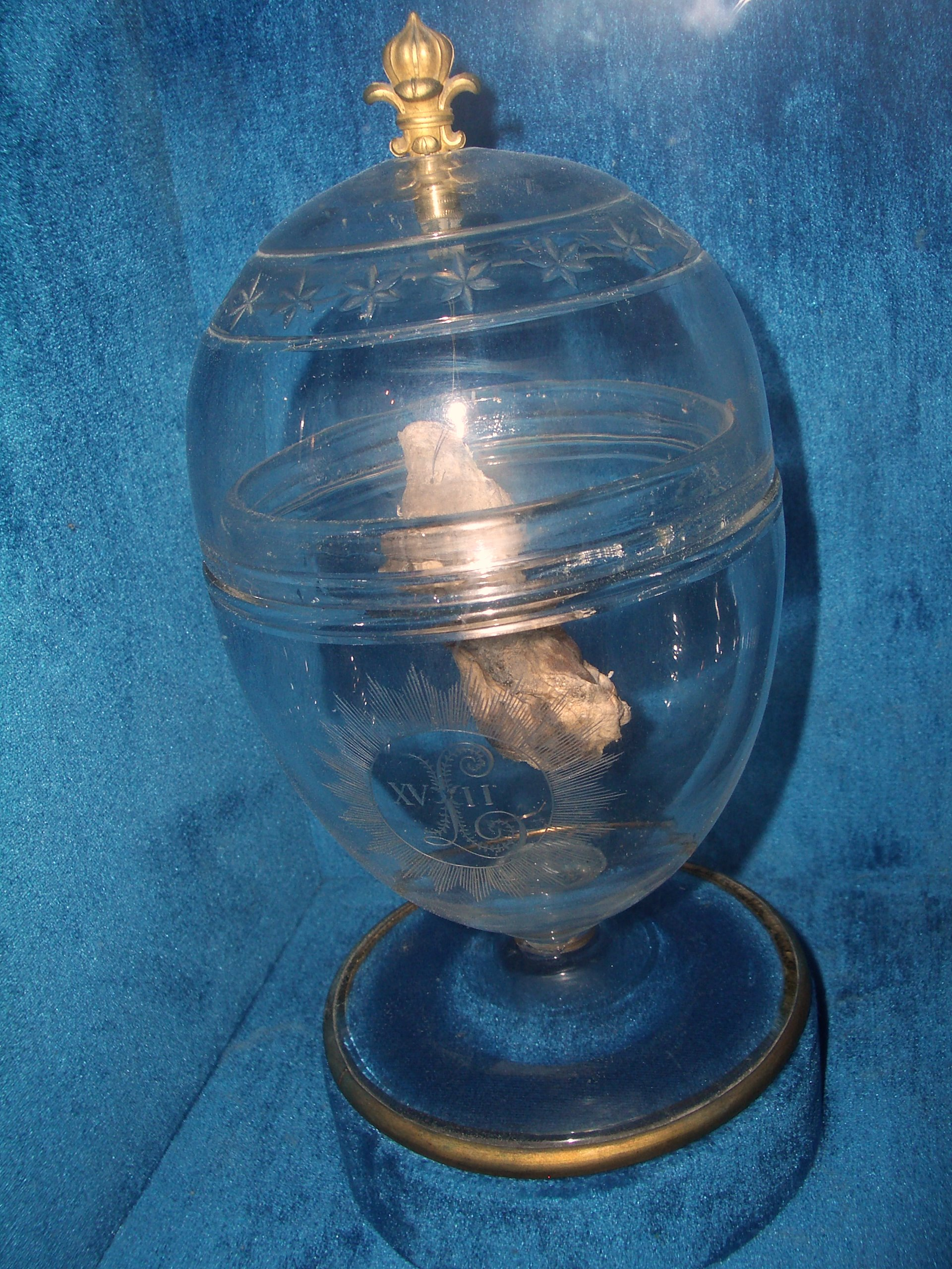 Louis Charles de France's heart. This son of Louis XVI, called Louis XVII by French royalists, was emprisoned during the French Revolution and died of an illness, still a child. Both genetic and historical studies in the beginning of the 21st century confirmed that the heart indeed did belong to Louis Charles de France. Consequently, on 8 June 2004, it was placed in the chapelle des Bourbons in the Basilica of Saint-Denis.